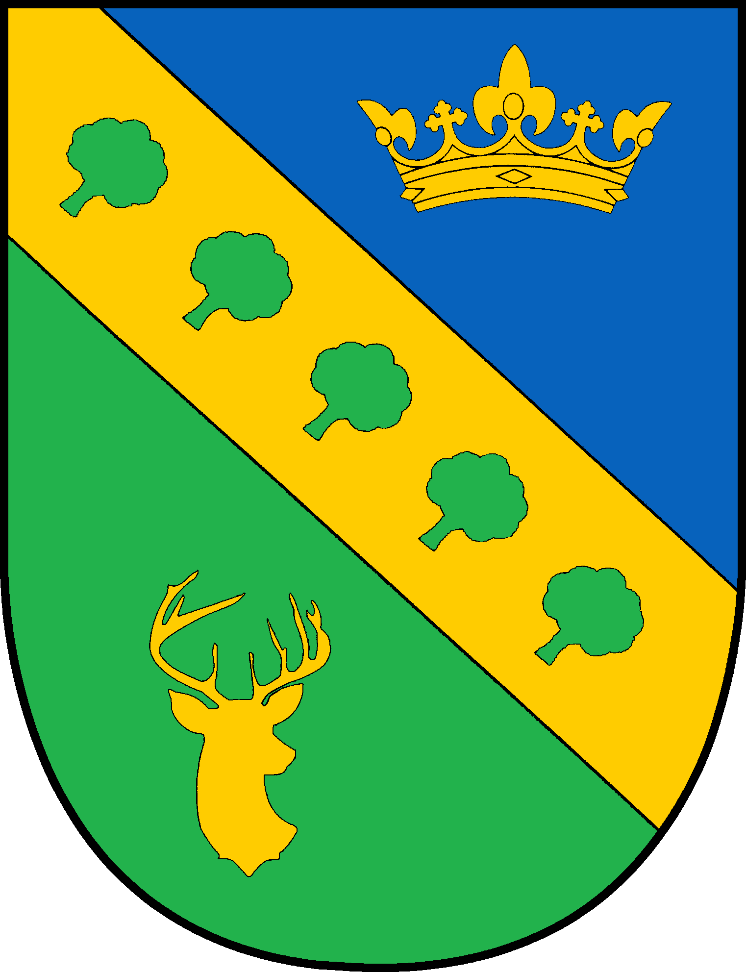 Coat of arms of the municipality Krummwisch in Schleswig-Holstein, Germany.